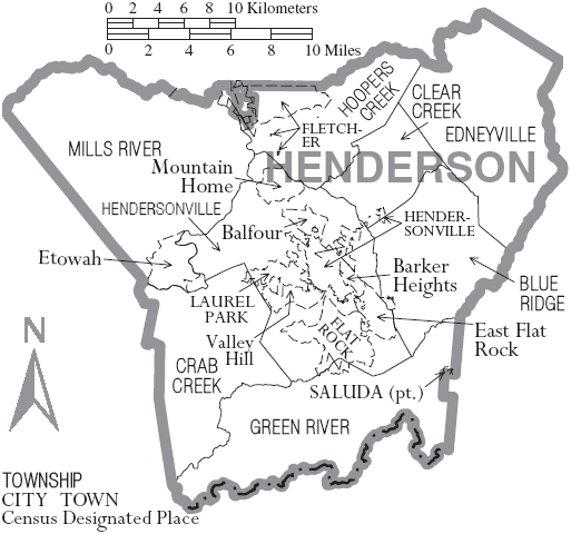 Map of Henderson County, North Carolina, United States with township and municipal boundaries